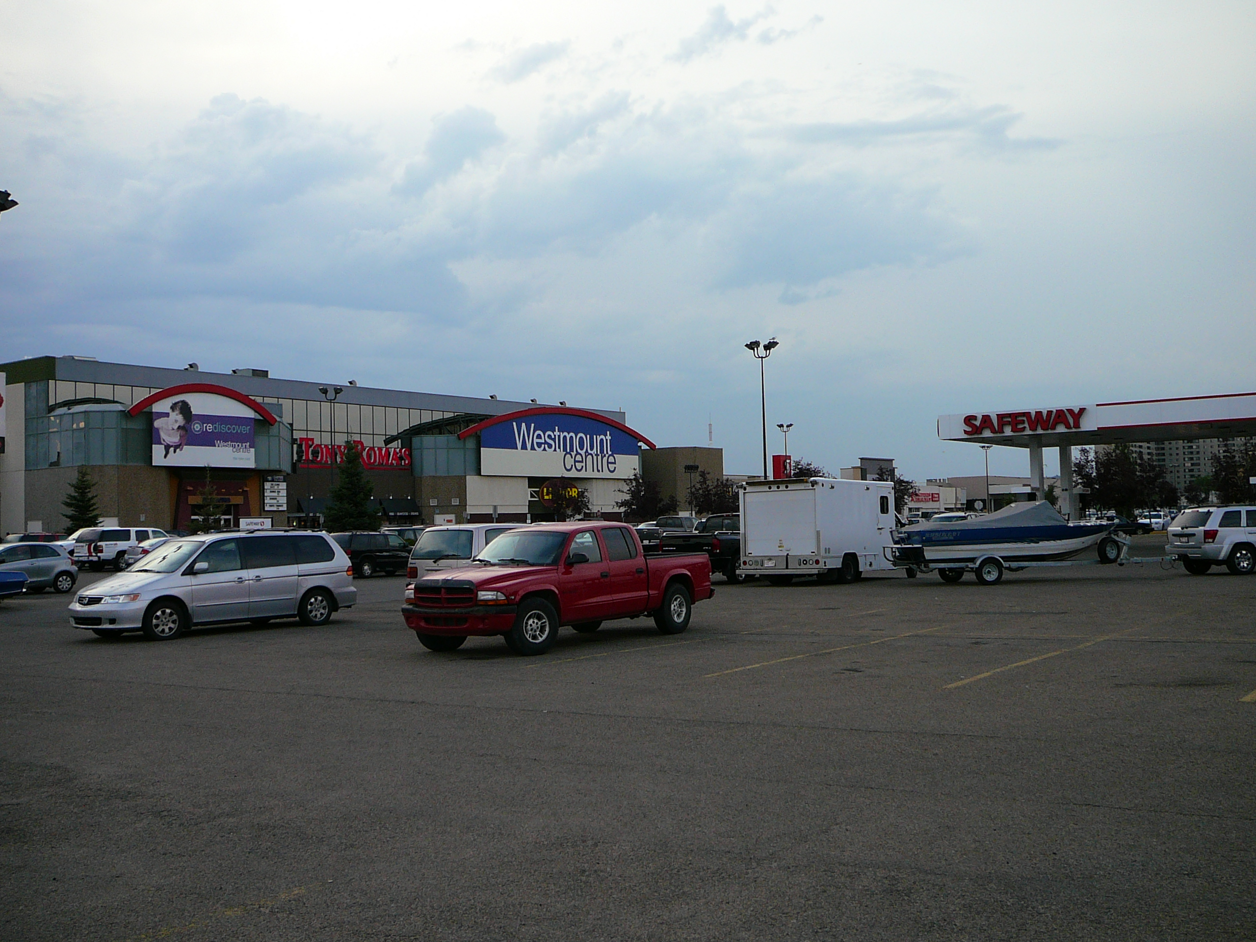 Westmount Centre in Edmonton, Canada